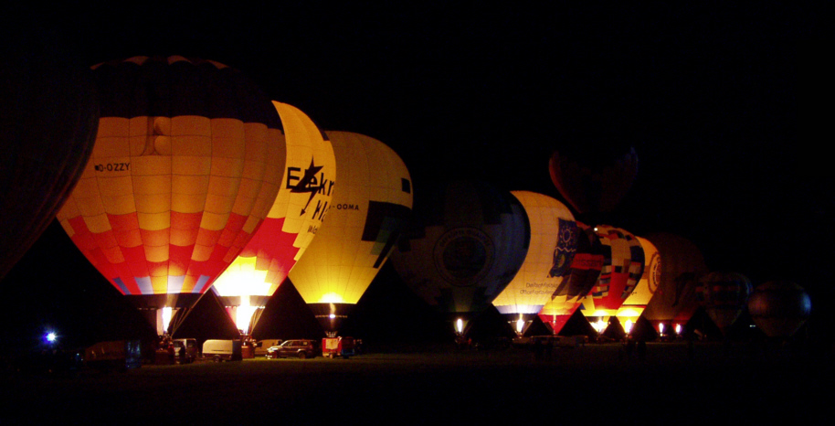 Ballonglühen // Nightglow of some hot-air balloons